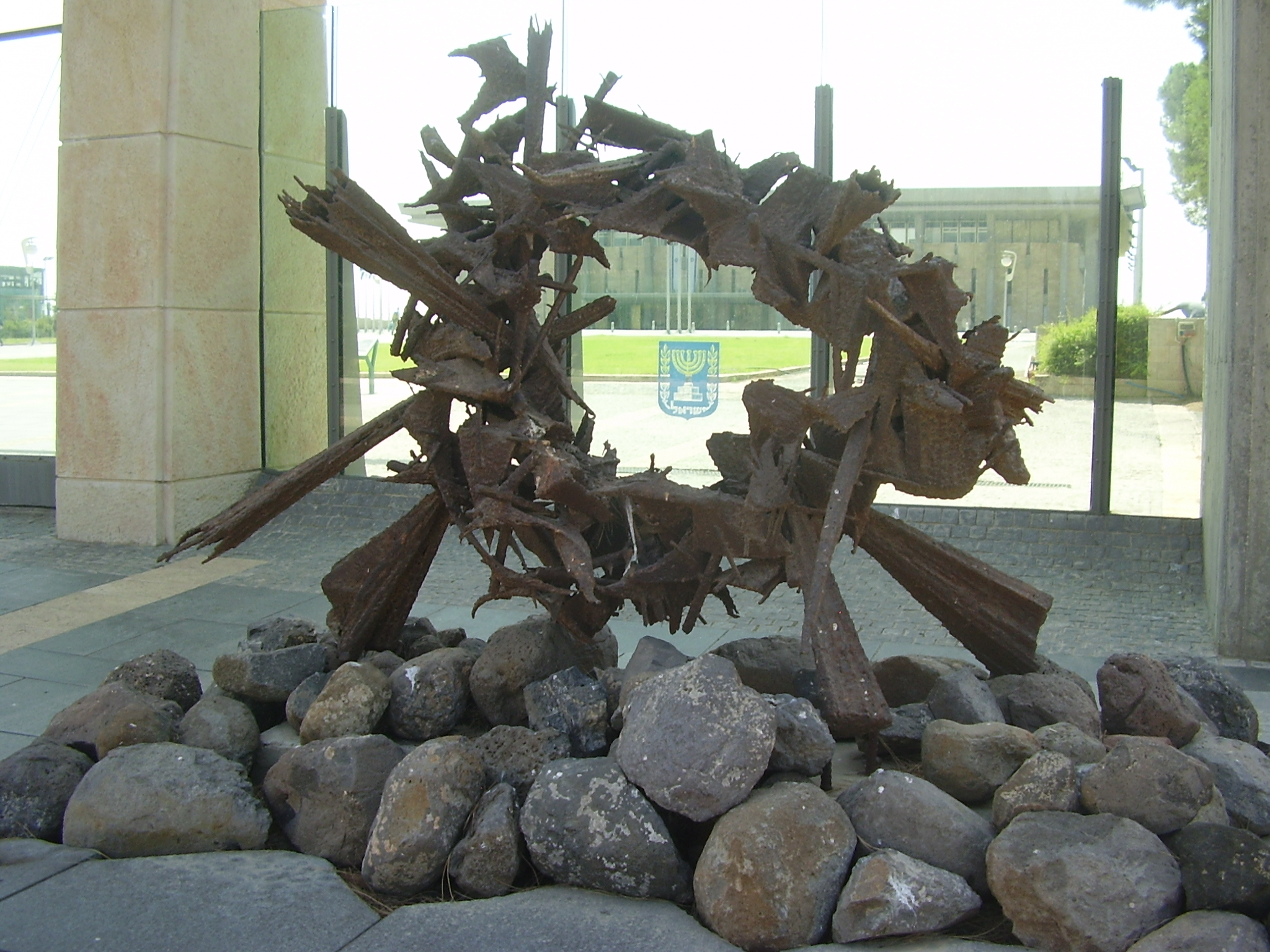 Burning bush sculpture by David Palombo in the Knesset, Jerusalem